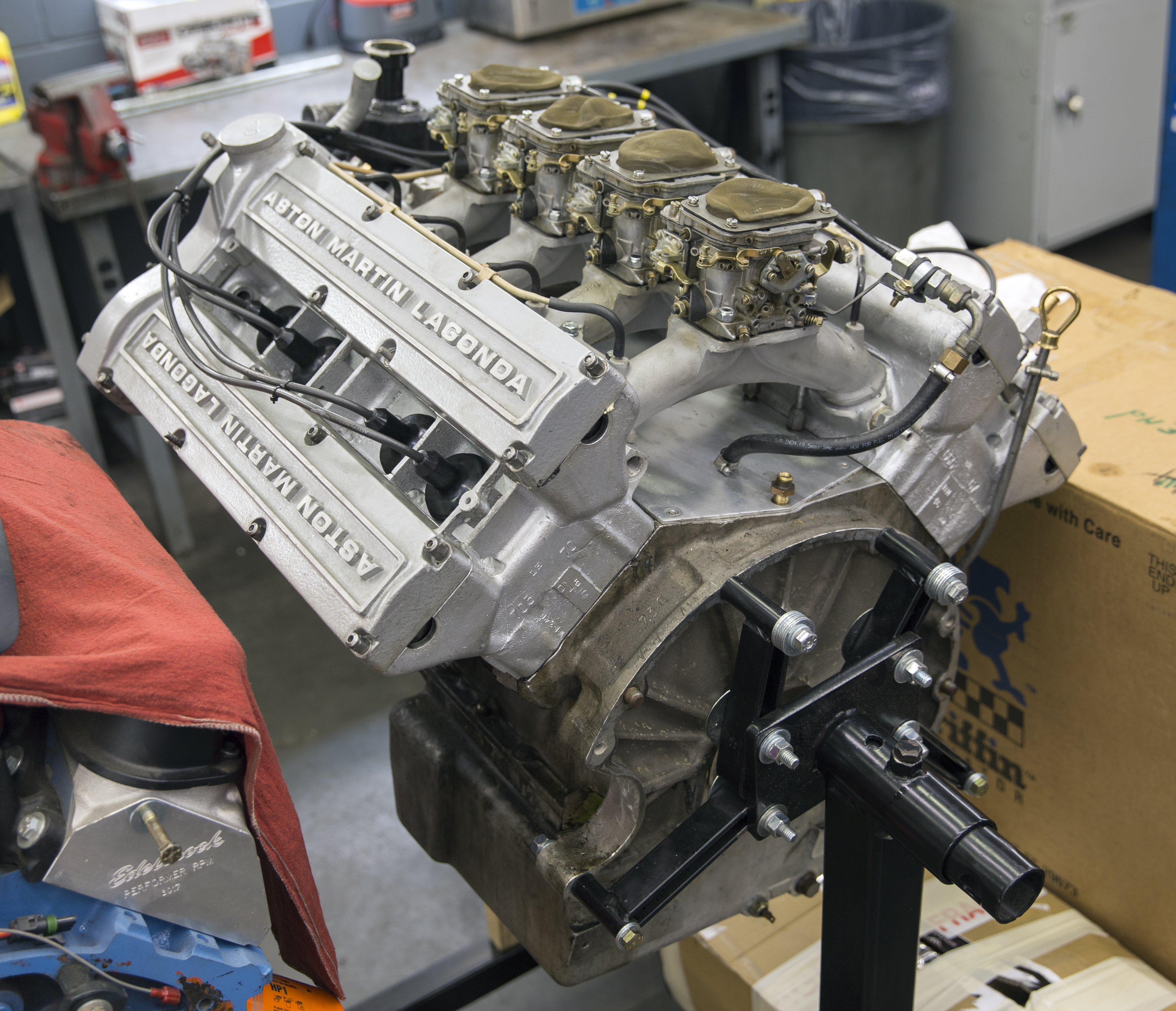 A 1986 (1987?) Aston Martin V8 engine from a federalized V8 Volante undergoing some work at Autosports Designs in Huntington, NY (Long Island). V580, chassis number is probably 15490 but I can find nothing. This particular engine was built by Mike Peach (who built 400 engines for Aston and still works in their Heritage workshop), while "LFA" signifies US catalyzed version and Vantage specs - not sure what that means for US market cars.